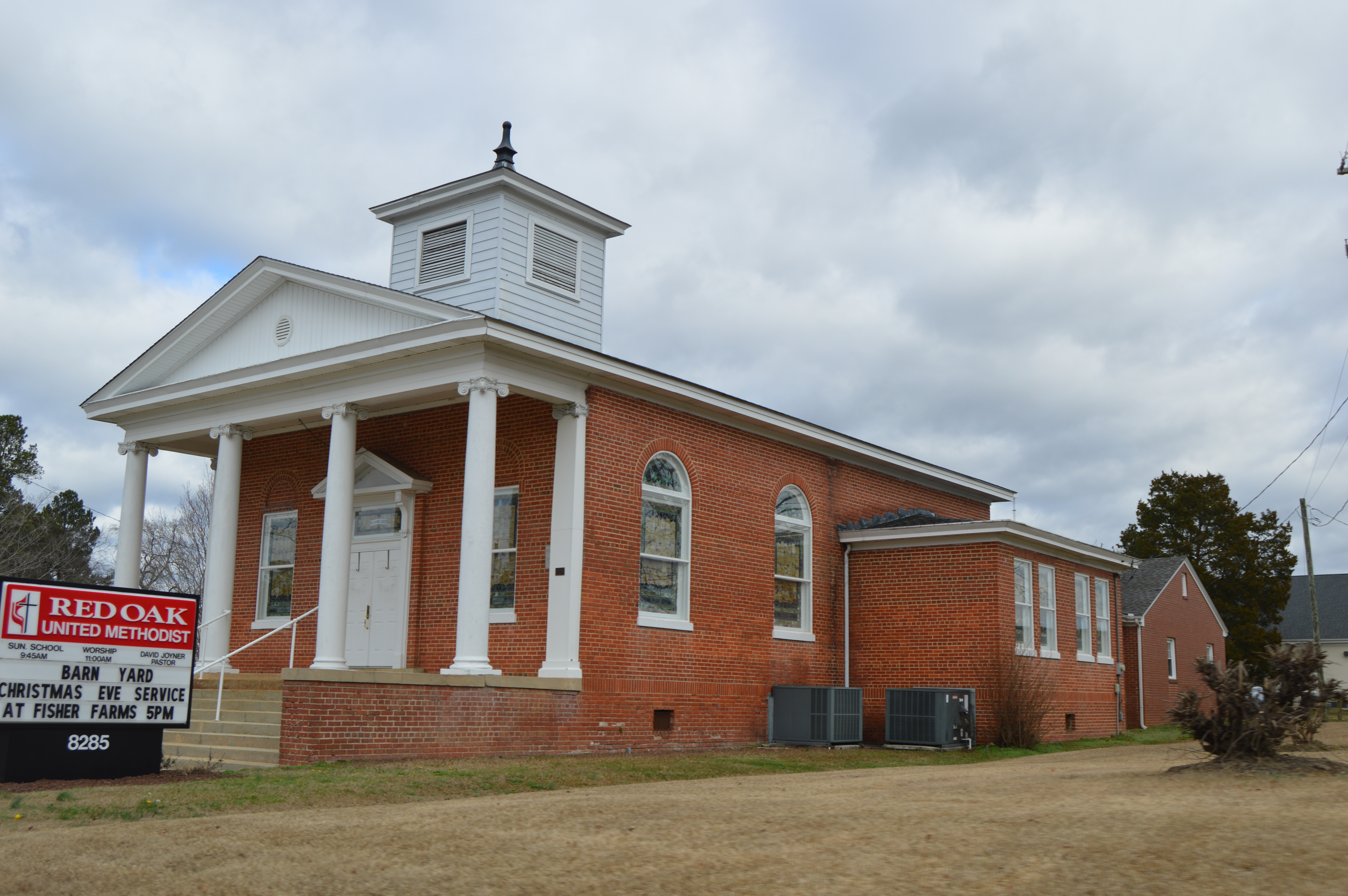 Front and southern side of the Red Oak United Methodist Church, located at 8285 North Carolina Highway 43 in Red Oak, North Carolina, United States.